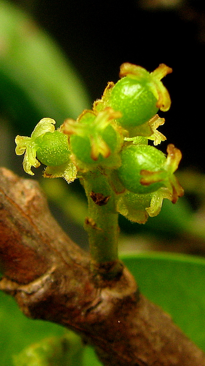 Pistillate inflorescence, with developing fruit.